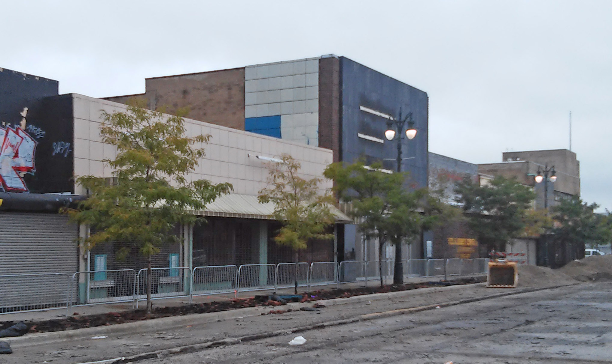 New Center Commercial Historic District, Detroit MI. At Milwaukee and Woodward, looking northwest